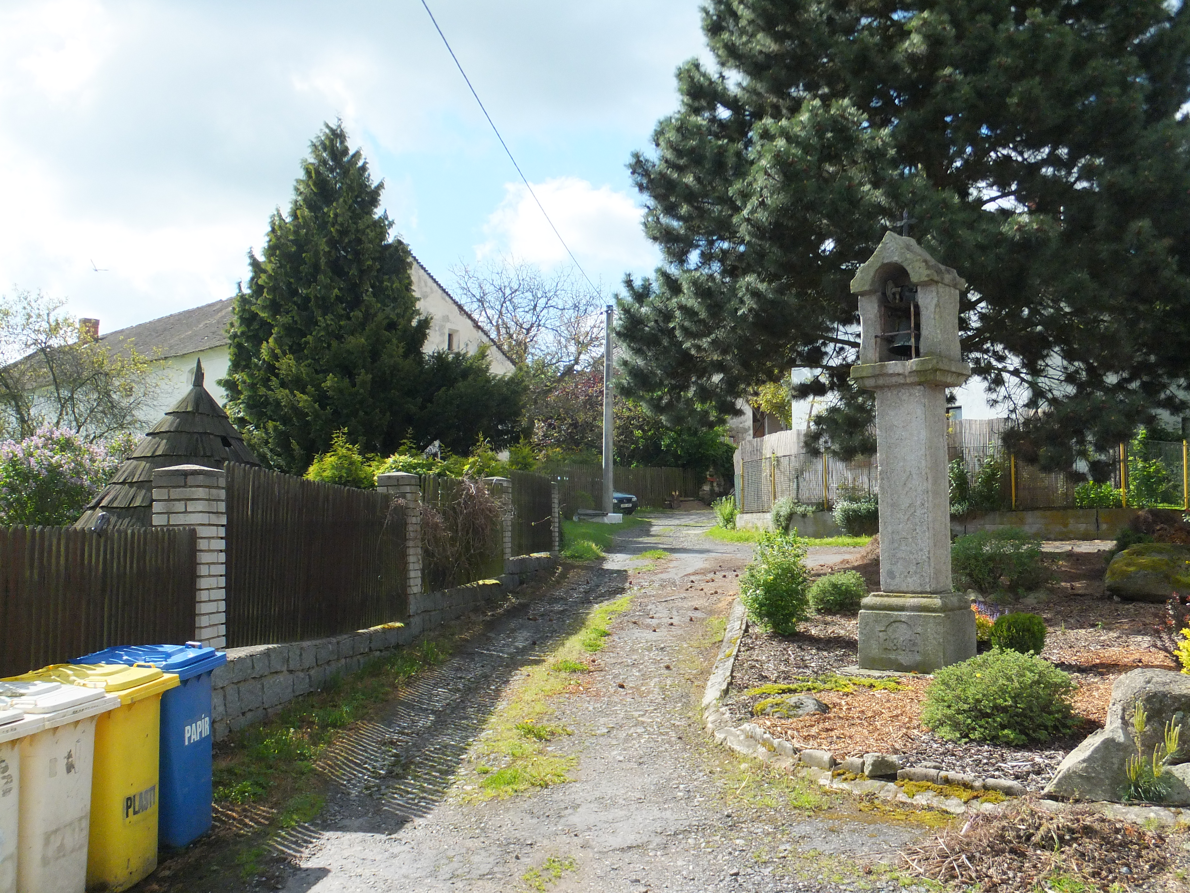 The nook with the bell pillar in Dohnalova Lhota